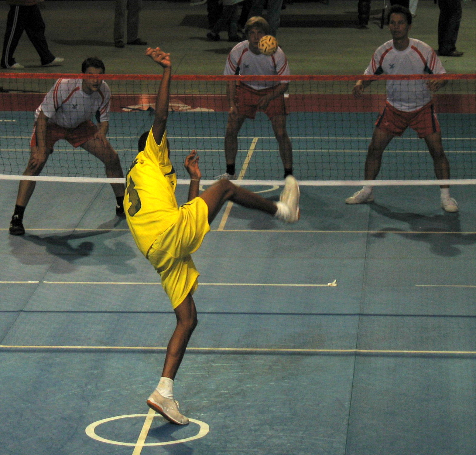 Photo of a service made by the Tekong in the game of Sepaktakraw at a match in Strasbourg author = Francois Schnell source =